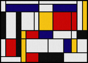 Digital reproduction of a painting by Piet Mondriaan